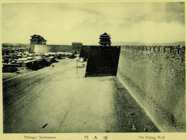 old photo from China 1900-1903, see the file's name for detail.